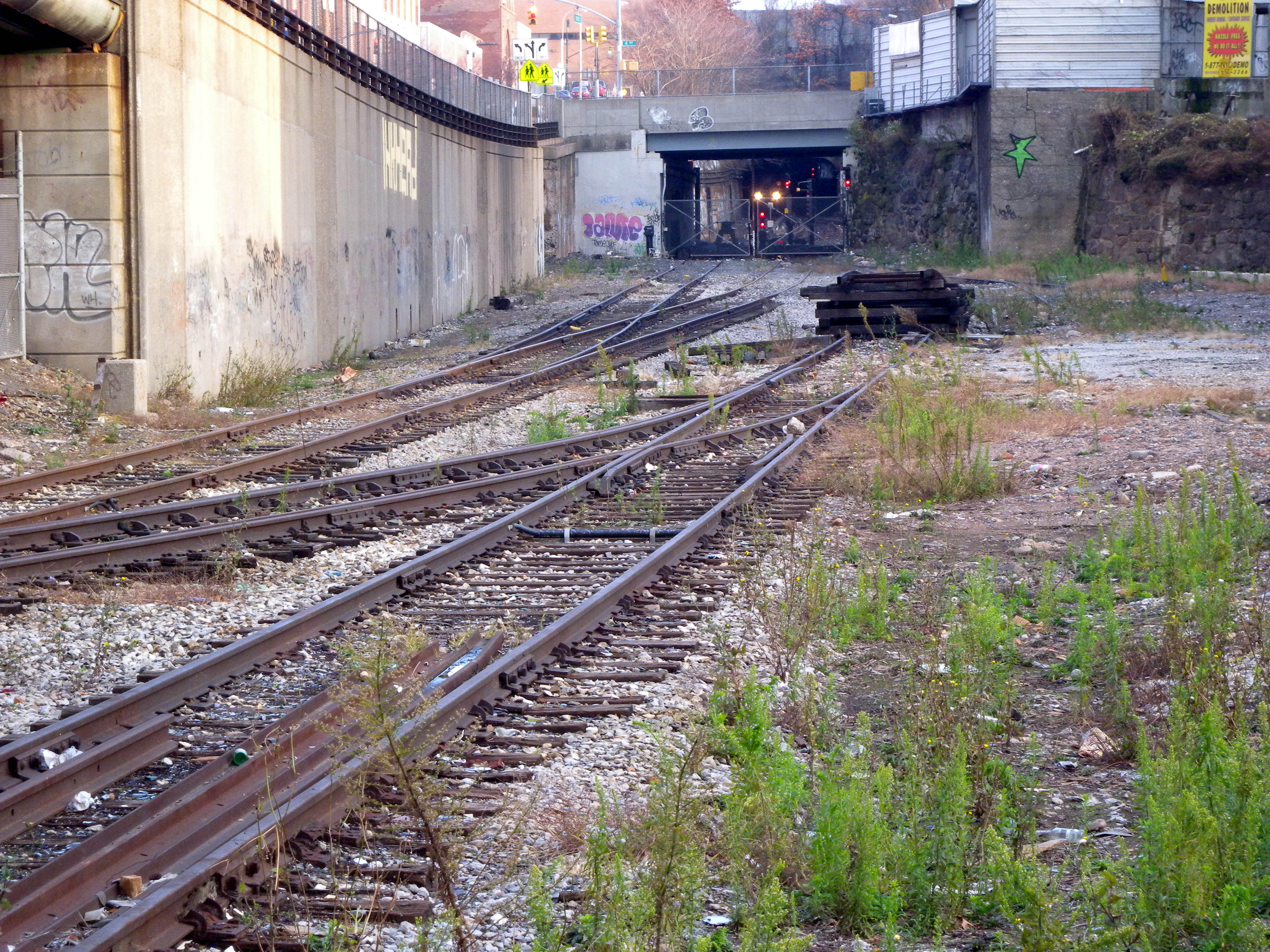 Looking southeast from under Gowanus Expressway as a northbound D train in the Culver Trench approaches under 4th Avenue before turning north to run along 4th Avenue. Foreground tracks lead to File:38st track Gowanus Expwy jeh.jpg